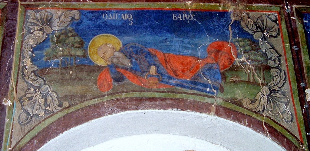 Fresco in Saint Demetrius Church Lithia Kumanichevo